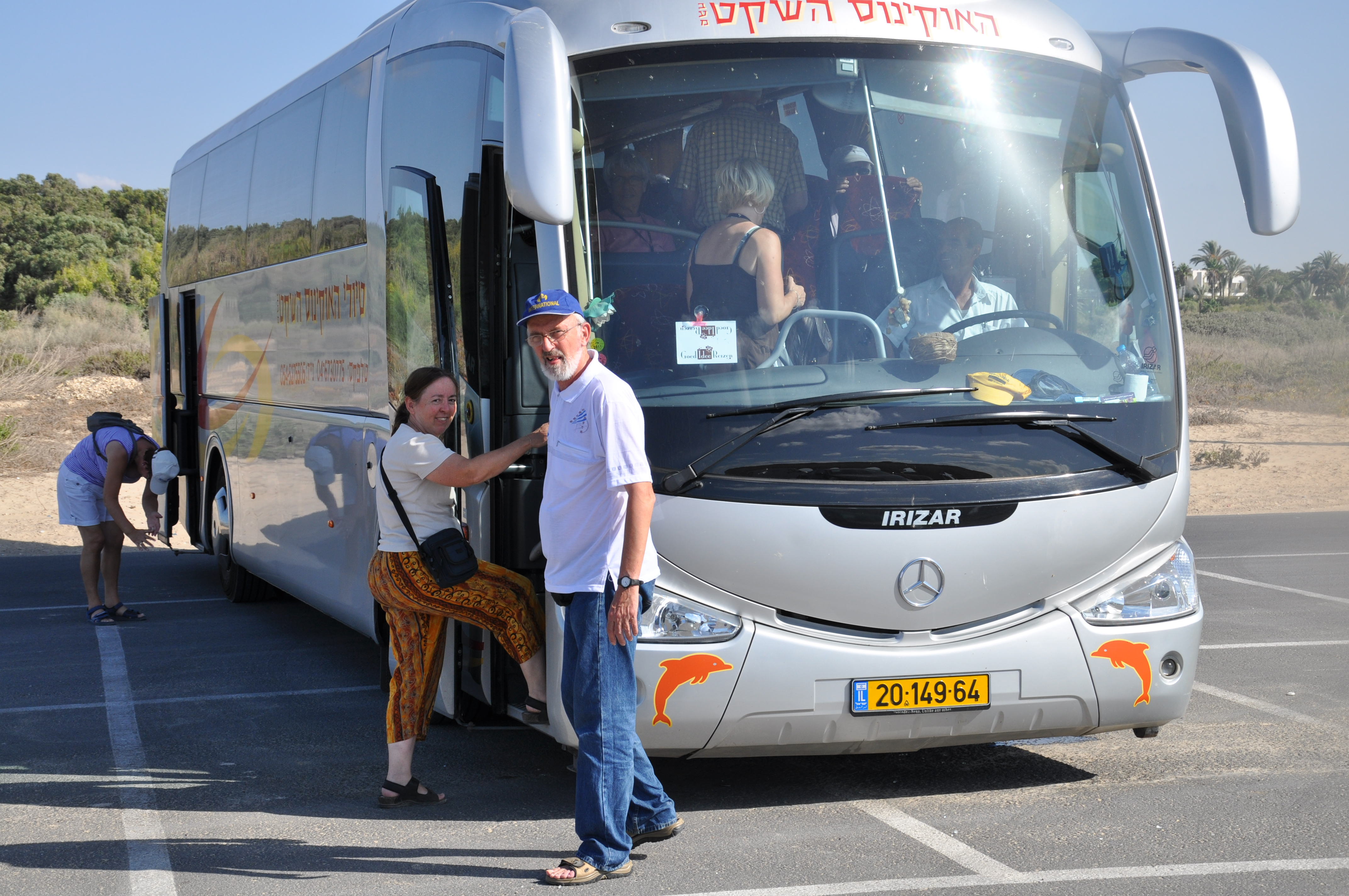 Dutch tourists in Caesarea, Israel